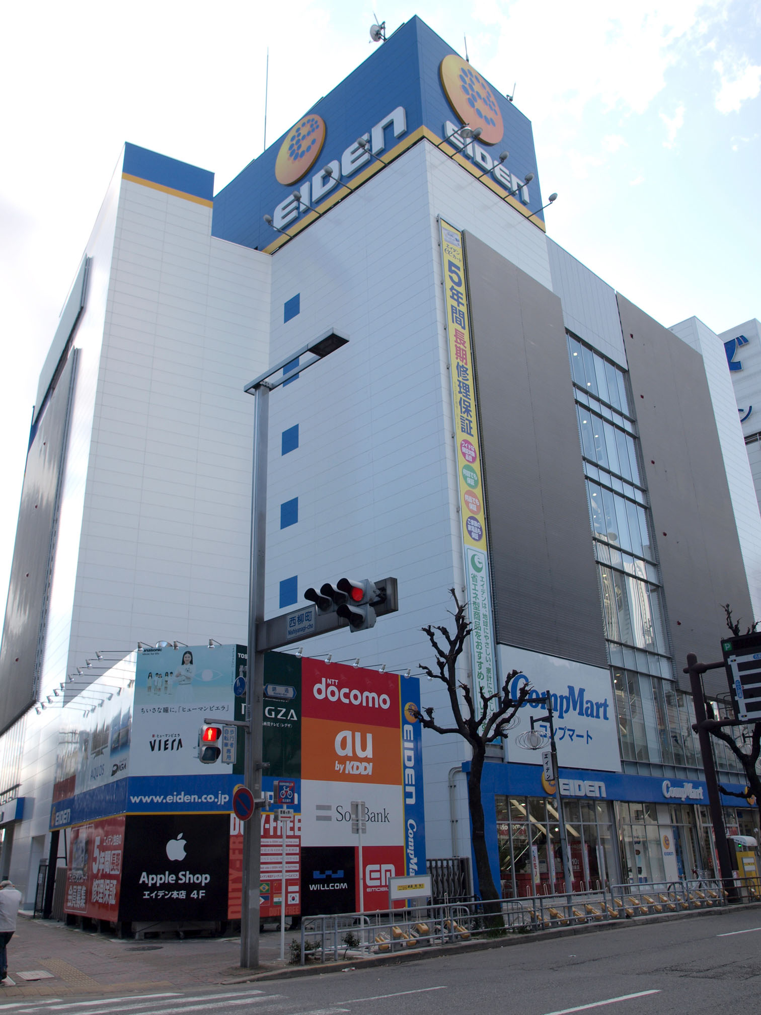 Nagoya International Center Building